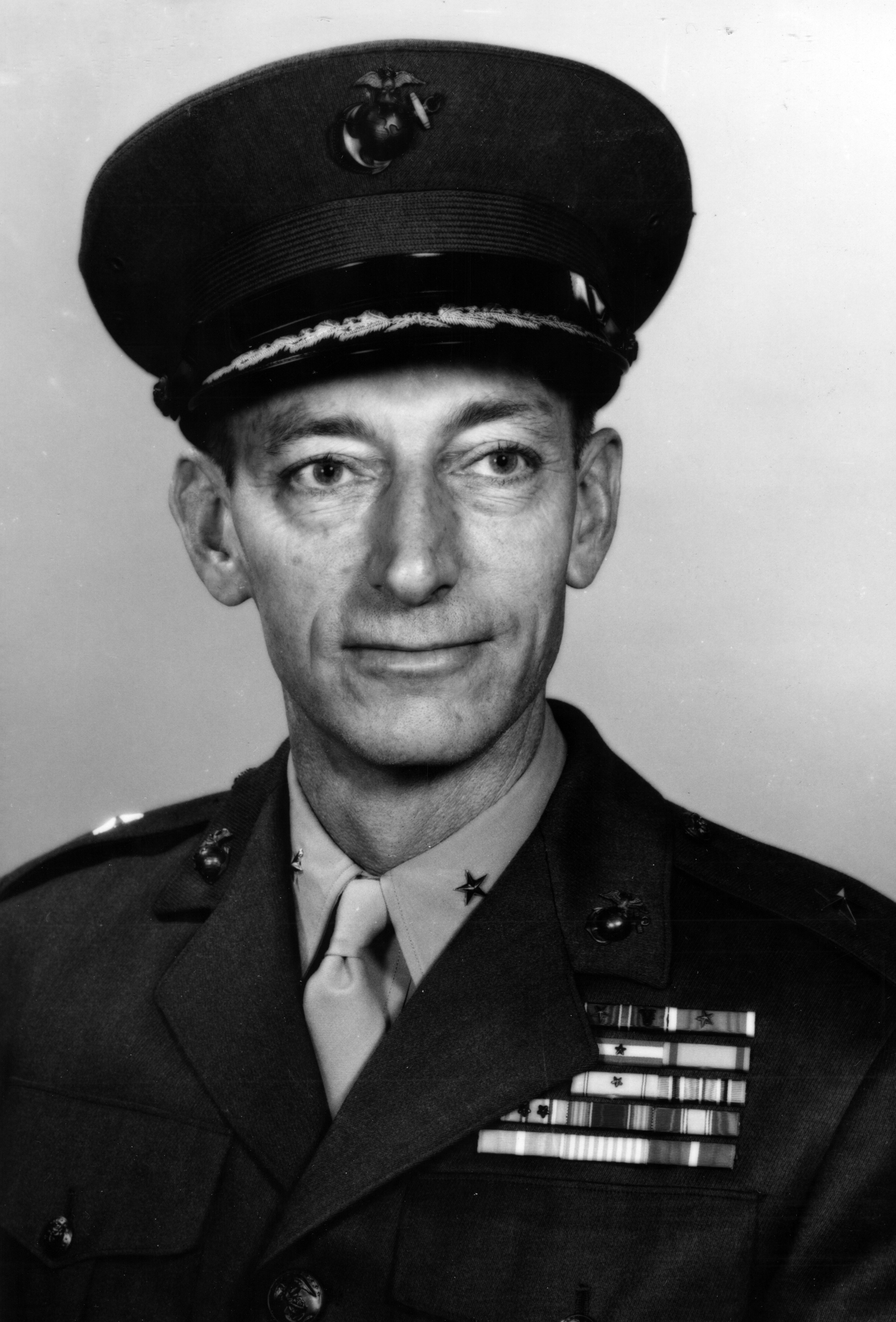 John Carroll Miller Jr. (December 25, 1912 - July 29, 2000) was a decorated officer in the United States Marine Corps with the rank of Brigadier general. A veteran of the Pacific War, he was wounded twice and received decorations for valor on Saipan and Okinawa. He remained in the Marines and retired as Brigadier general and Commanding general, Landing Force Training Command, Atlantic.